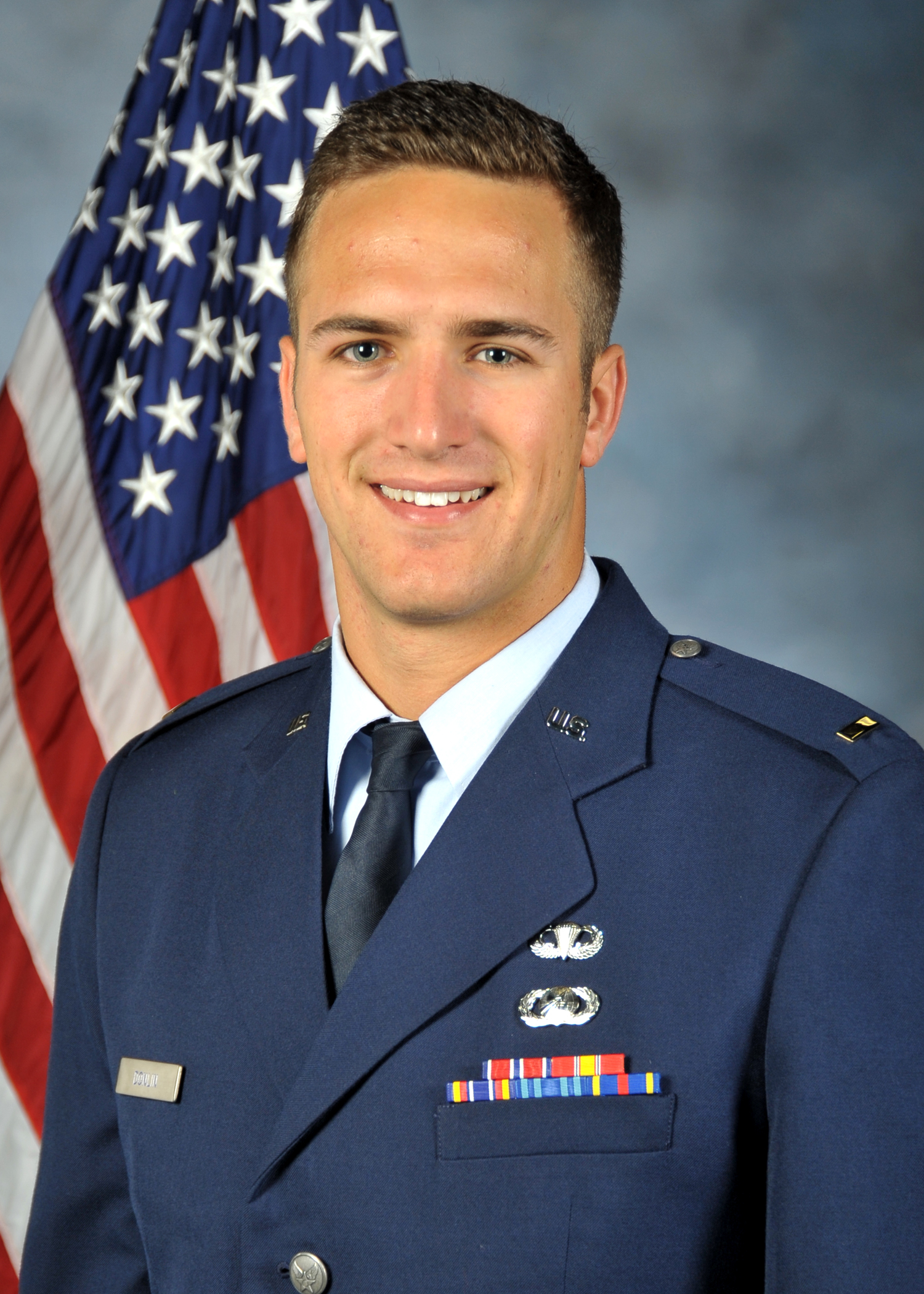 Image of Andrew Donlin